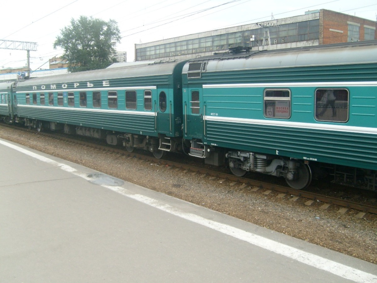 Фирменный поезд "Поморье" на Ярославском вокзале города Москвы